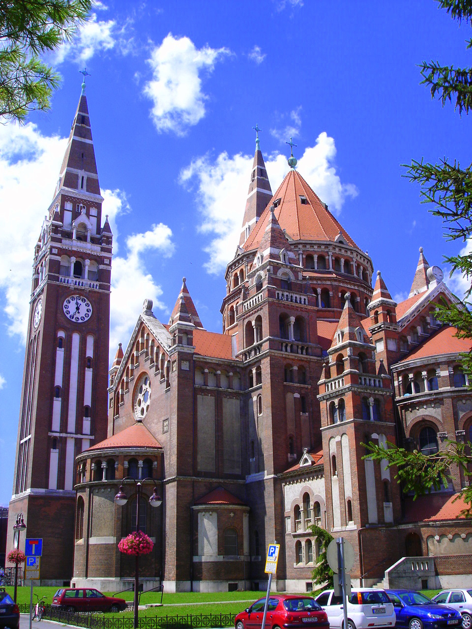 Cathedral of Szeged